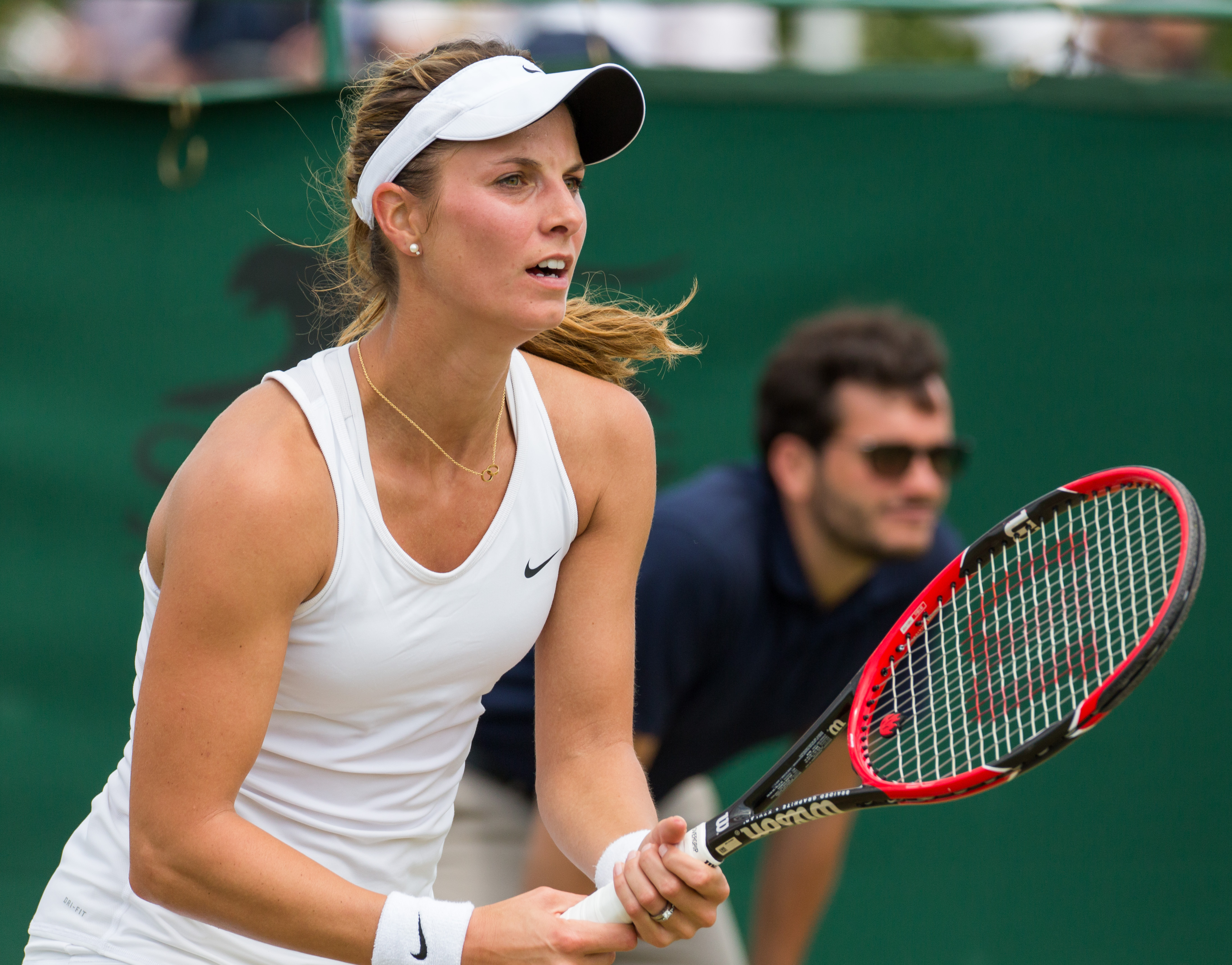 Mandy Minella competing in the second round of the 2015 Wimbledon Qualifying Tournament at the Bank of England Sports Grounds in Roehampton, England. The winners of three rounds of competition qualify for the main draw of Wimbledon the following week.